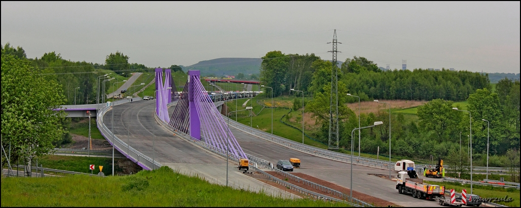 Freeway bridge on autostrada A1 in Mszana, Poland